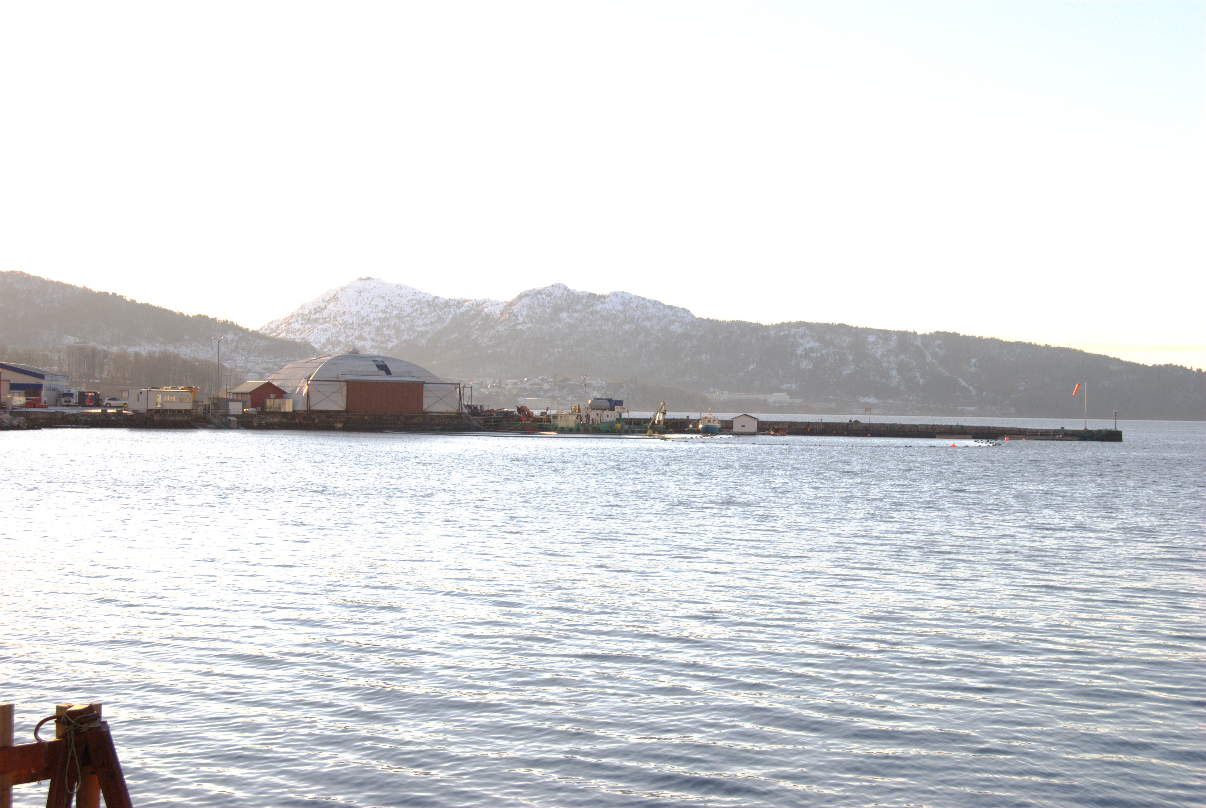 Bergen Airport, Sandviken in Bergen, Norway